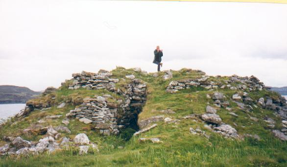 Dun Ringill, Skye. An Iron Age coastal fort on the Strathaird peninsula. Can anyone see the connection with Jethro Tull?